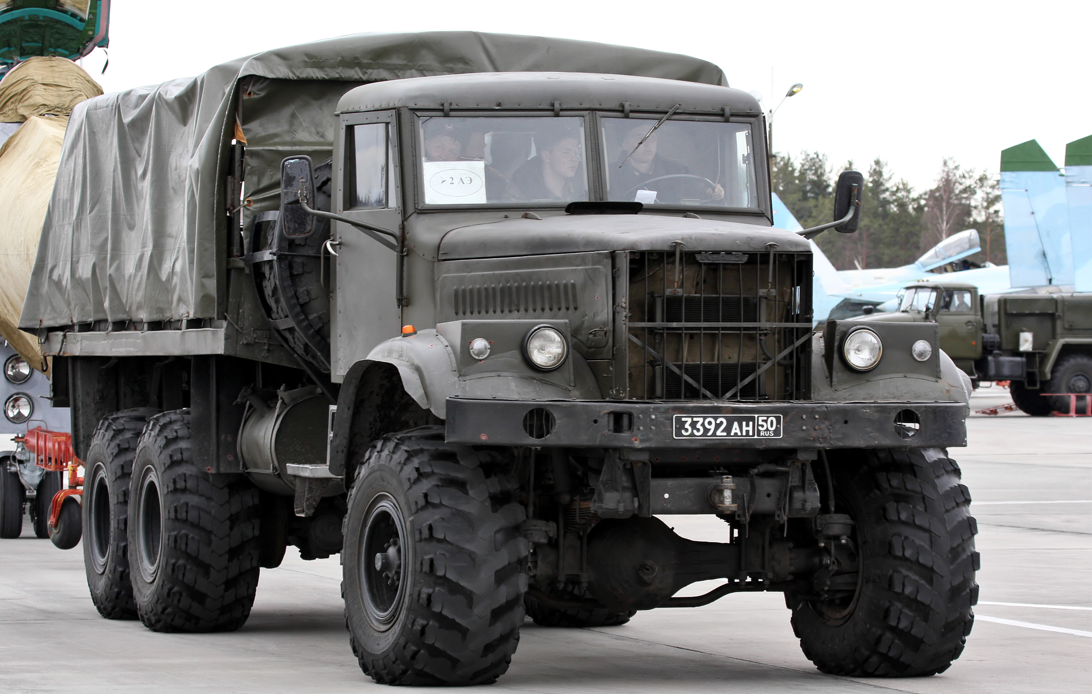 790th Fighter Order of Kutuzov 3rd class Aviation Regiment, Khotilovo airbase